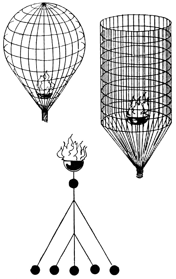 Illustration of elevated open flame devices, based on drawing in Mahlon Loomis' notebooks, circa 1870. The original magazine caption read "Methods Suggested by Loomis for the Harnessing of Electricity from the Atmosphere".